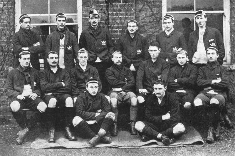 The Oxford University rugby union team which lost 4 tries to nil against Cambridge in 1891. The team is Back row (L-R): G.H.F.Cookson, F.I.Colishaw, E.Selby, W.H.Wakefield, F.O.Poole, C.D.Baker. Seated: W.E.Wilkinson, P.C.Cochran, A.R.Kay, P.R.Clauss, L.J Percival, R.G.T.Coventry, E.Bonham-Carter. On Ground: J.Conway-Rees, G.M.Carey.